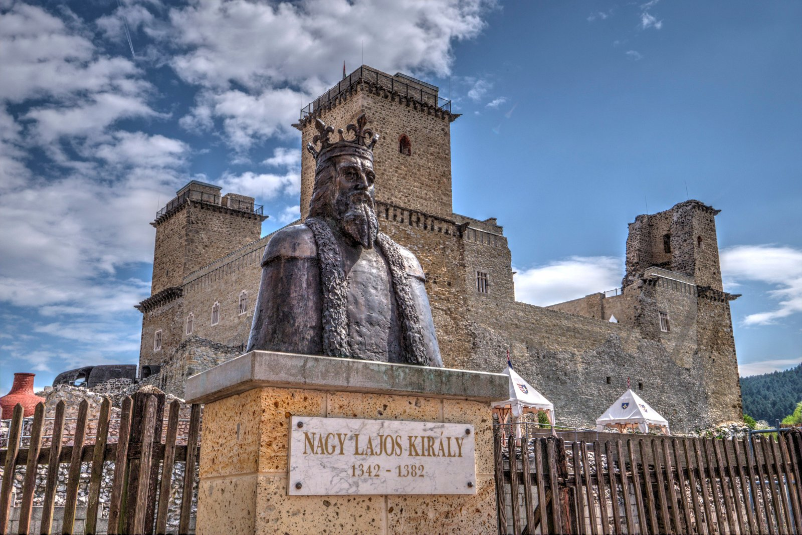 Diósgyőr Castle, Miskolc, Hungary